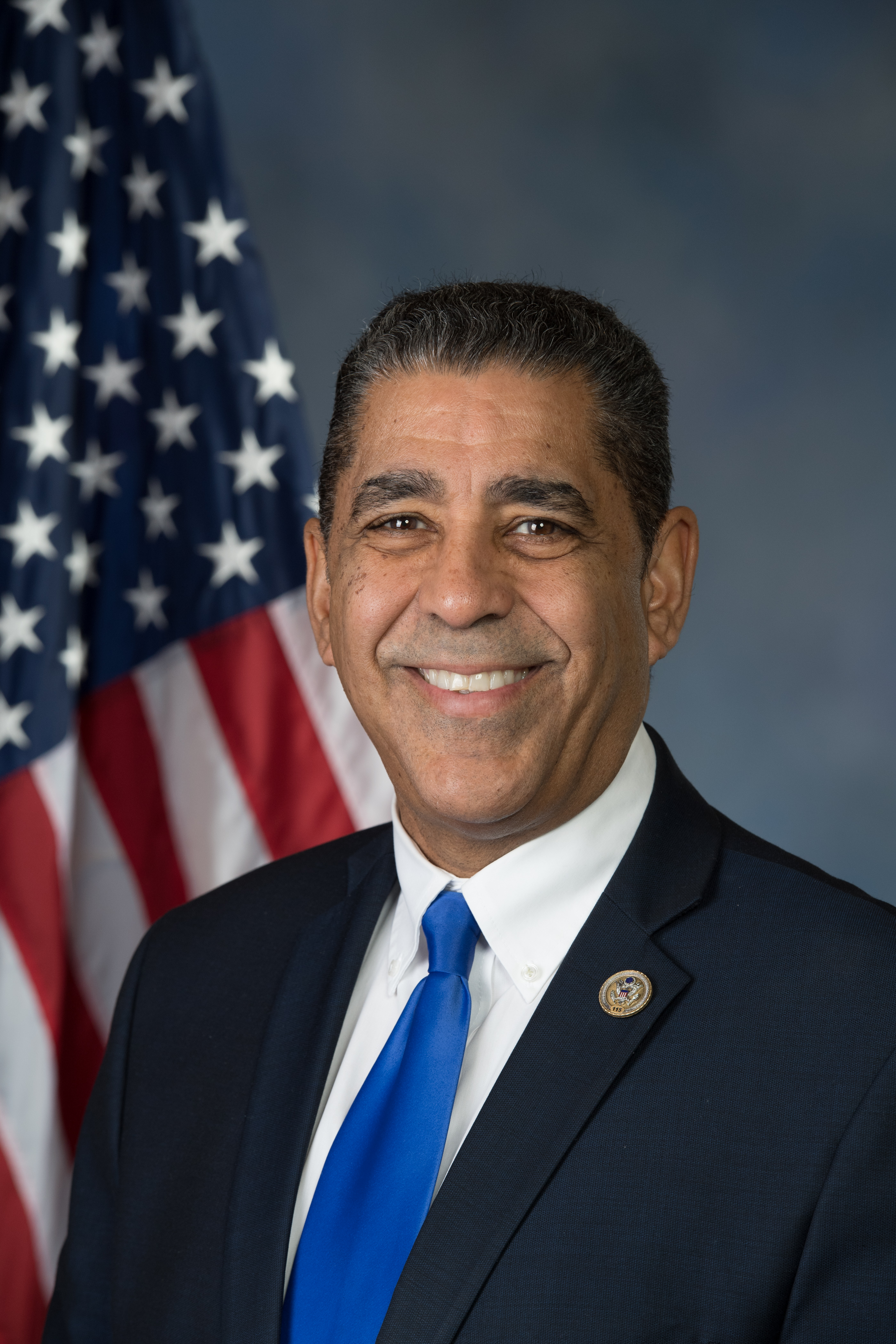 US Rep Adriano Espaillat, D-NY